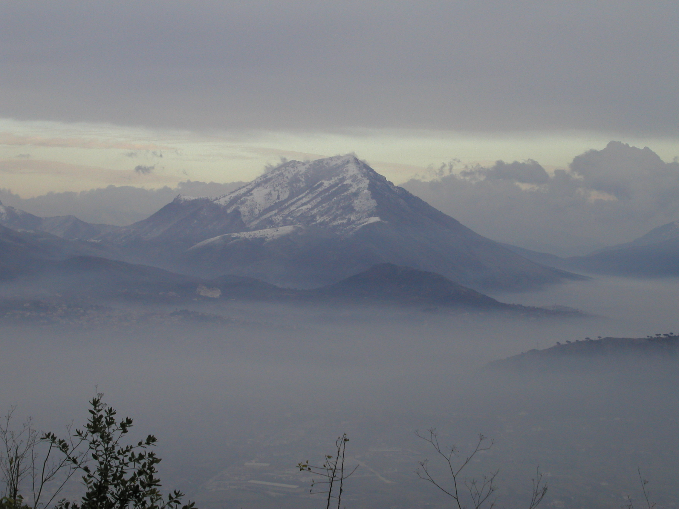 View from Monte Cassino on a cold day of December. The valley surrounded by mountains is extremely cold in winter. The mountain in the picture is Mount Sammucro.